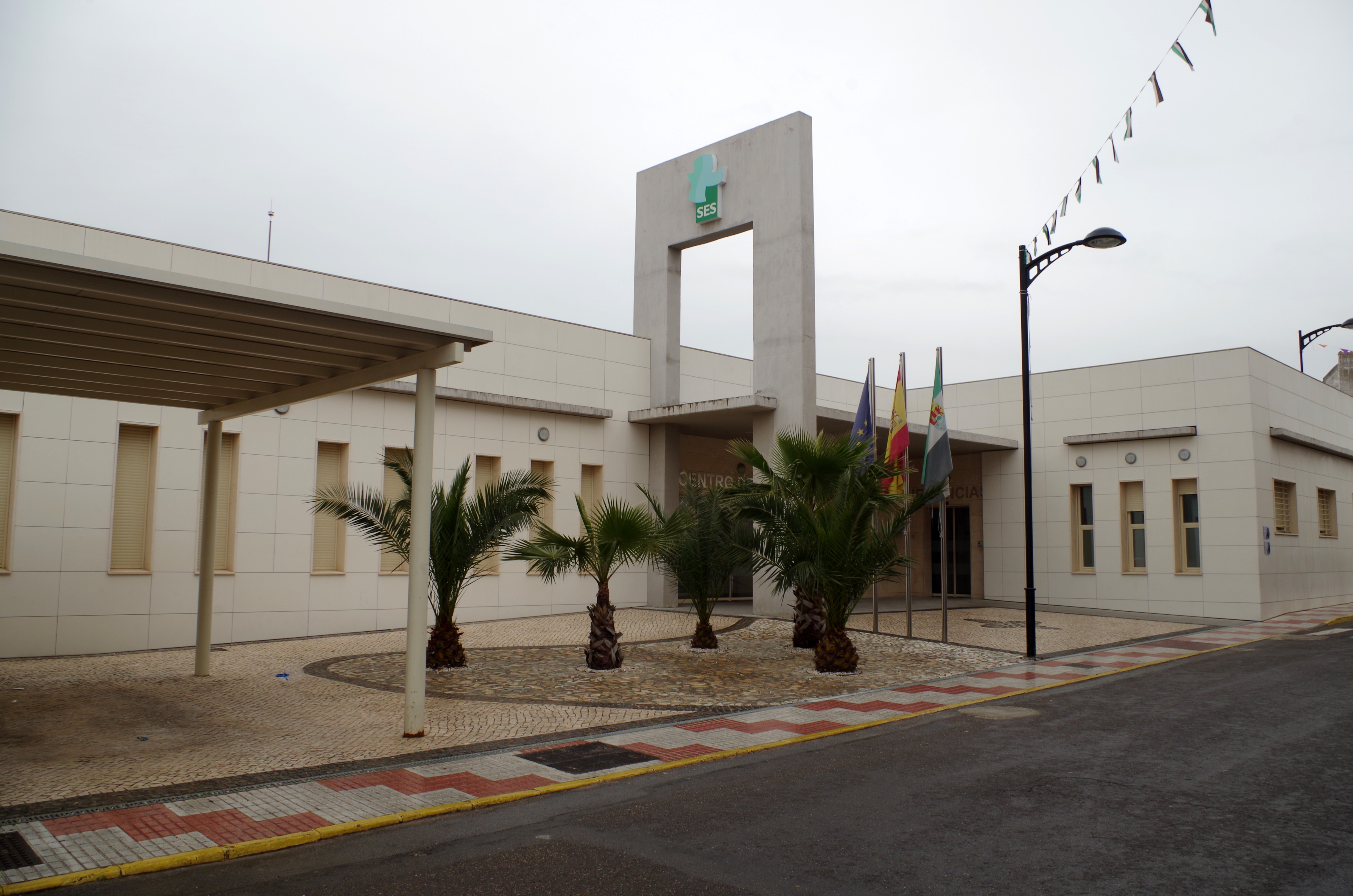 Community health center, Calamonte (Badajoz, Spain).